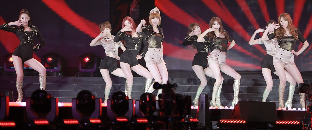 Nine Muses at K-Collection in Seoul, 2012